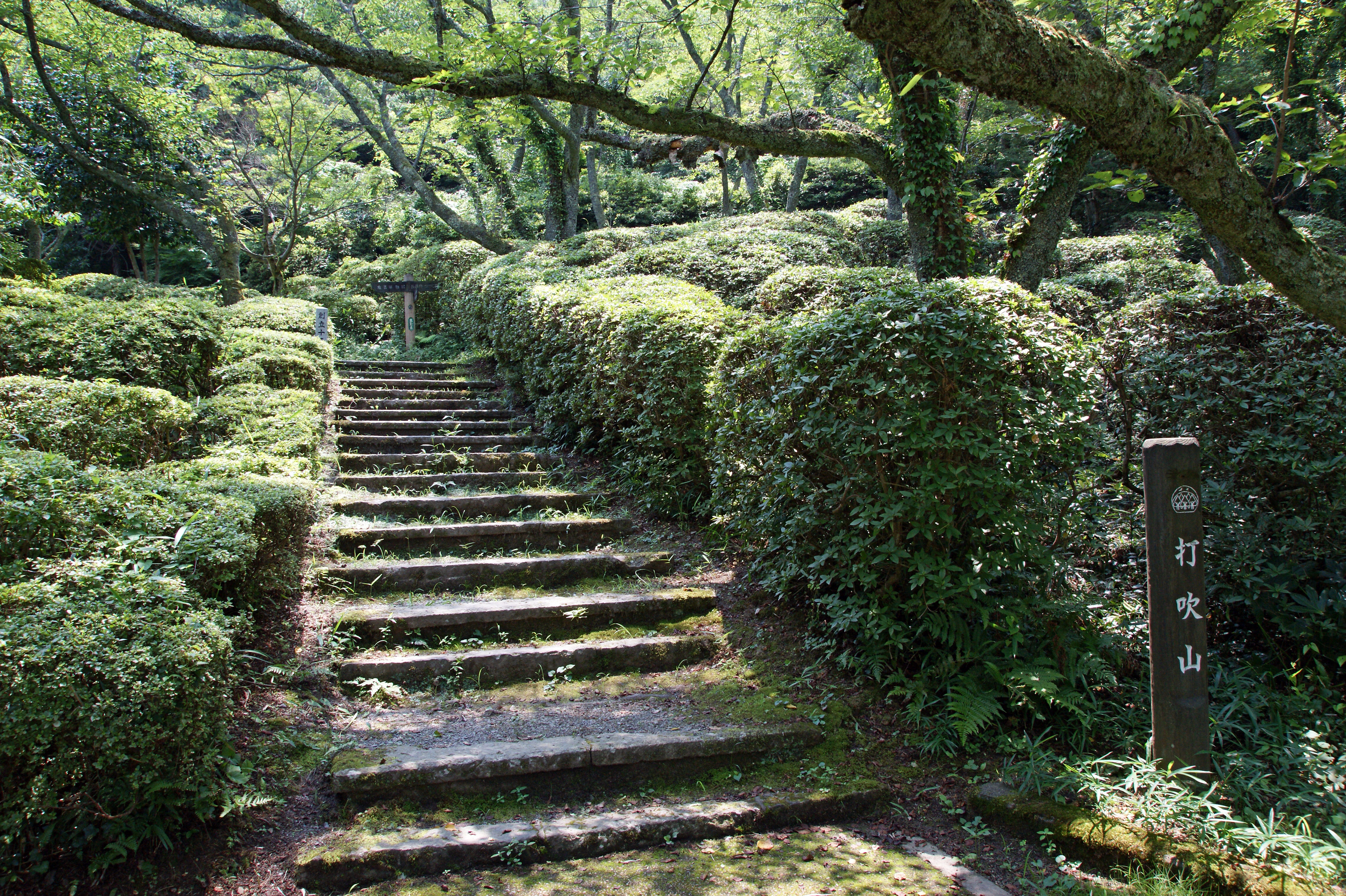 Utsubuki Park in Kurayoshi, Tottori prefecture, Japan